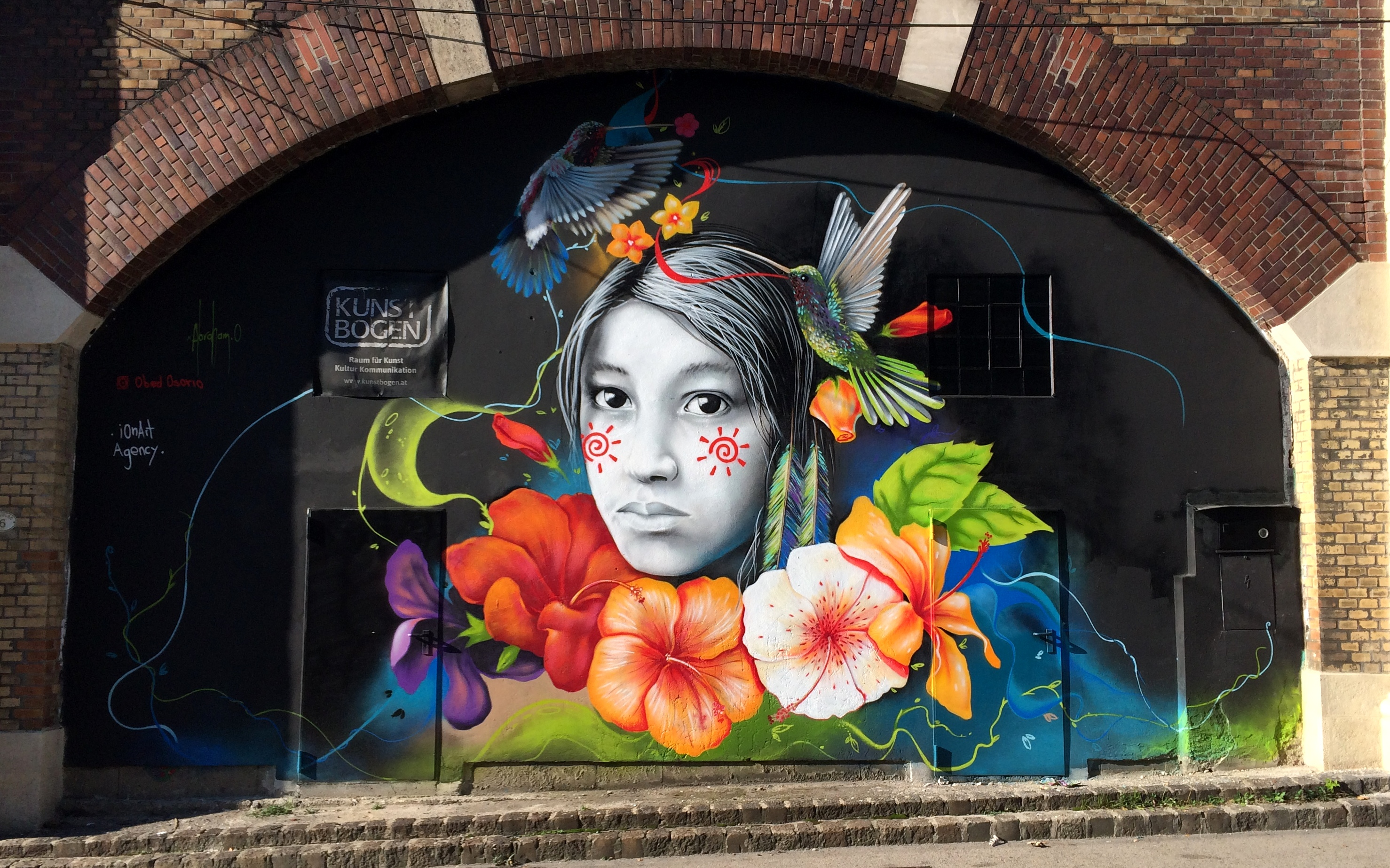 Mural by Obed Osario on Stadtbahn vault no. 6 in Gumpendorfer Gürtel, Vienna's 6th district